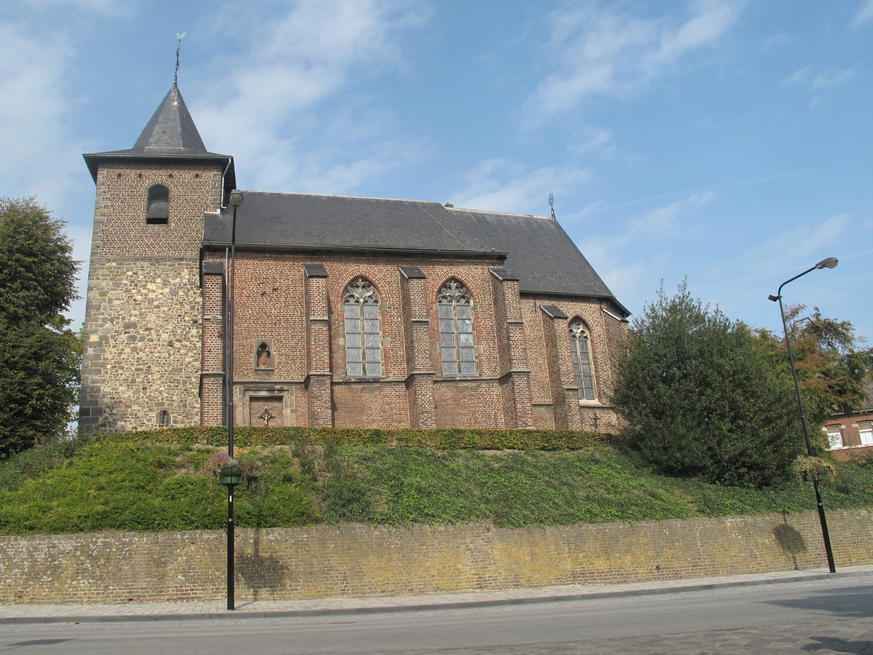 Eygelshoven, church: H. Johannes de Doperkerk